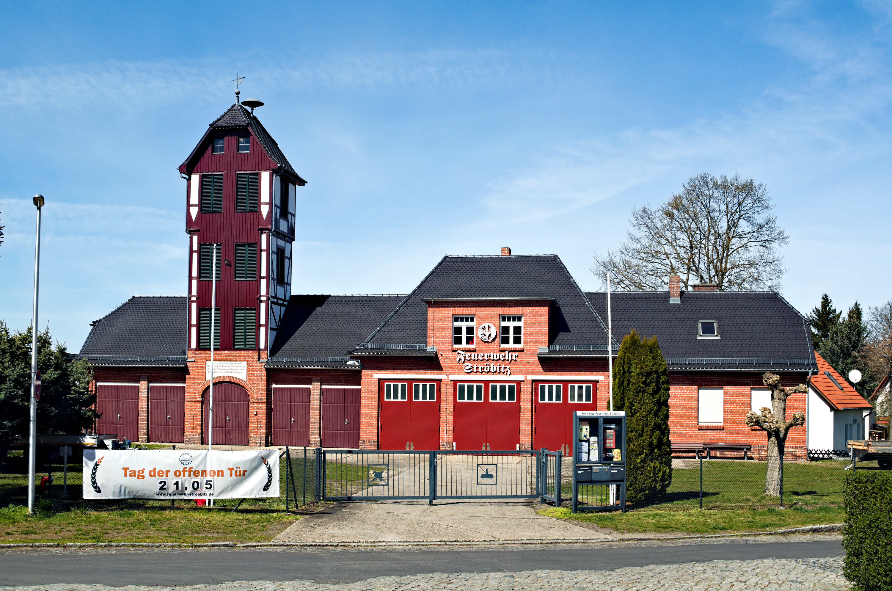 The fire station at Vetschauer Platz in Cottbus-Ströbitz is a cultural heritage monument and still in active service. It houses the voluntary fire department of the district.